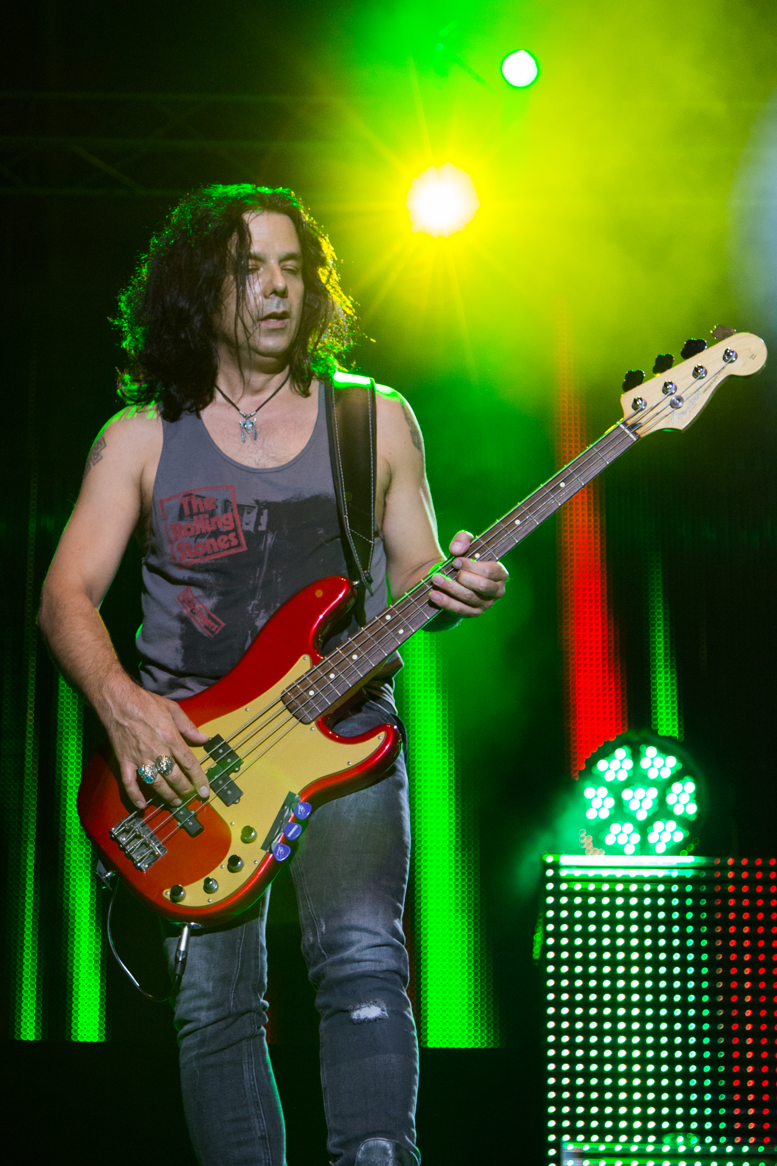 Paweł Mąciwoda from the Scorpions at the See-Rock Festival 2014